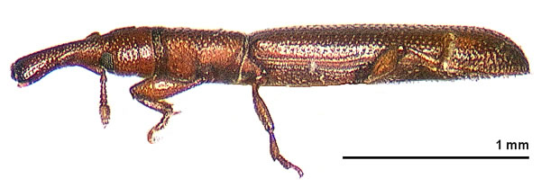 Lateral view of a specimen of Stenotrupis debilis photographed by Landcare Research New Zealand Ltd.